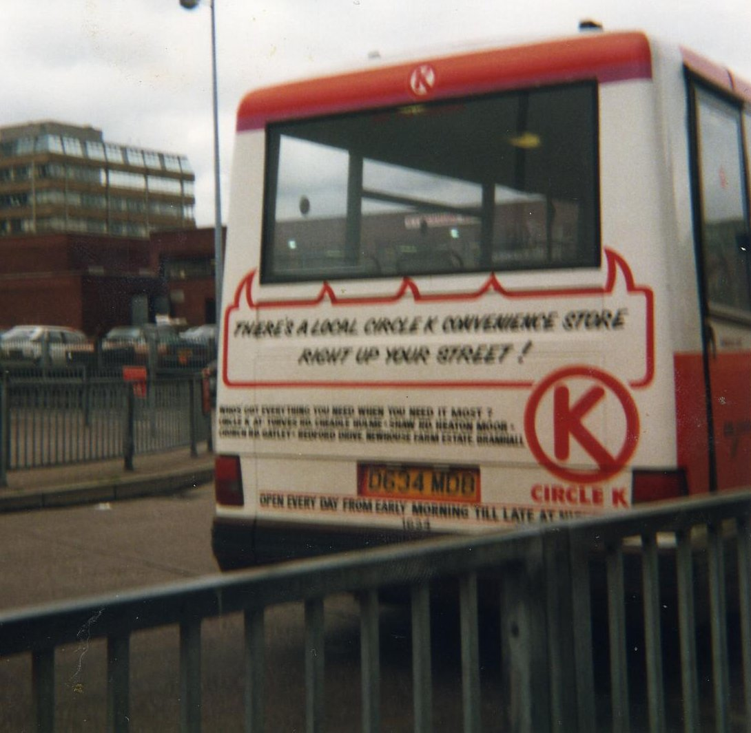 Not a very good shot but thought i'd put it up on here anyway, and the back of a Little Gem that you don't see in Greater Manchester anymore! The building opposite the bus station is where the original Wythenshawe Market used to be situated, it moved to the front of the Civic in October 1999 with the original market demolished and now in it's place is a Maccy D's, Blockbuster, some Indian resturaunt and a KFC See another one of these preserved in it's original livery at the Museum of Transport here